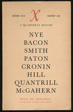 X magazine, Vol II